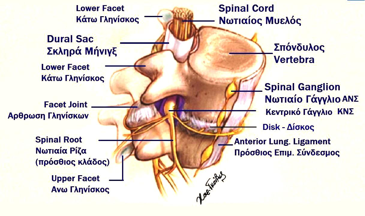 Lumbar anatomy